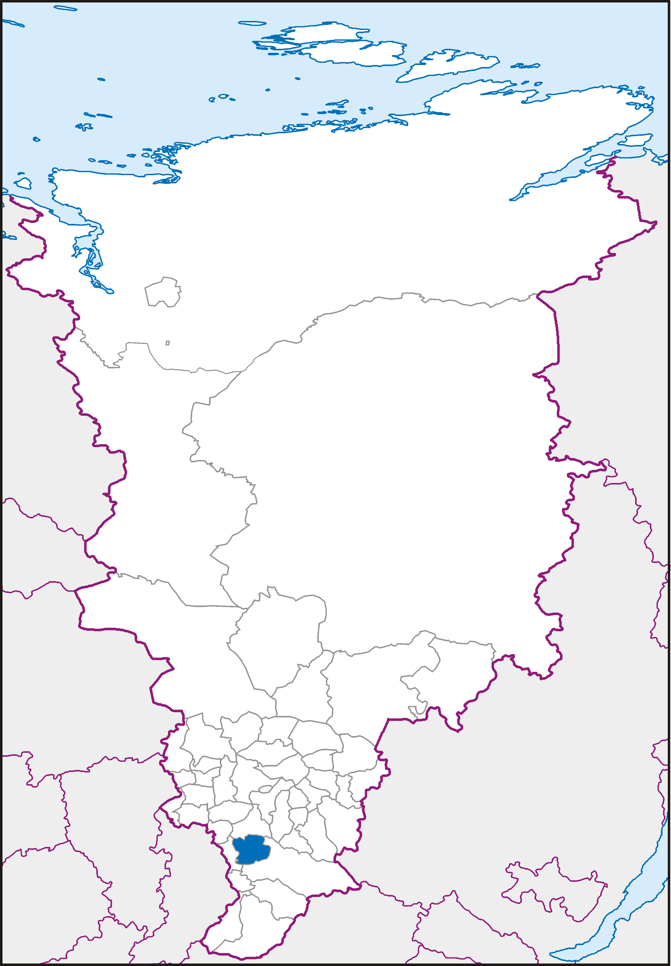 Map of Krasnoyarsk Krai in Albers Equal-Area Conic projection (Central Meridian = 95° E)